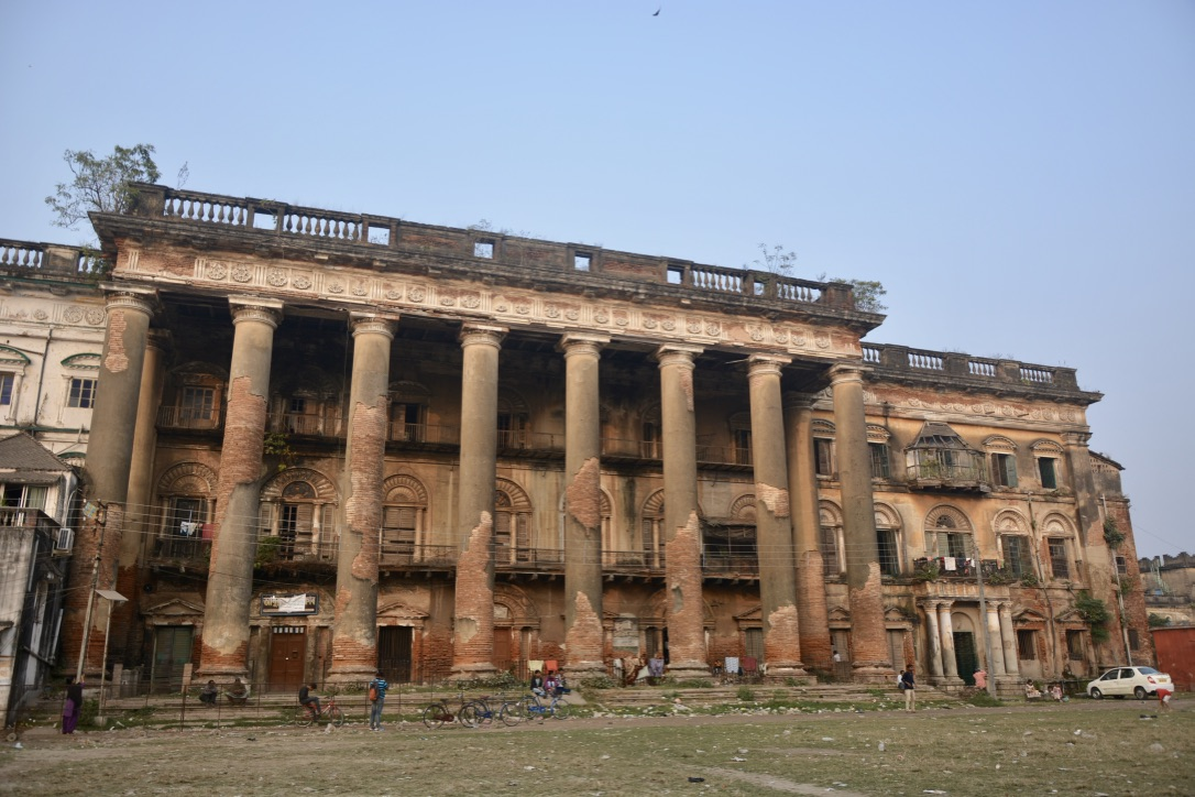 The Andul Rajbari in Howrah